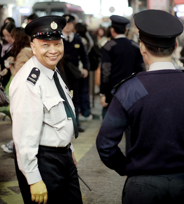 Not so common to see policemen smile. Especially not policemen of the Hong Kong police force. But for once I saw that rare smile in Mong Kok. And this was not for the camera.